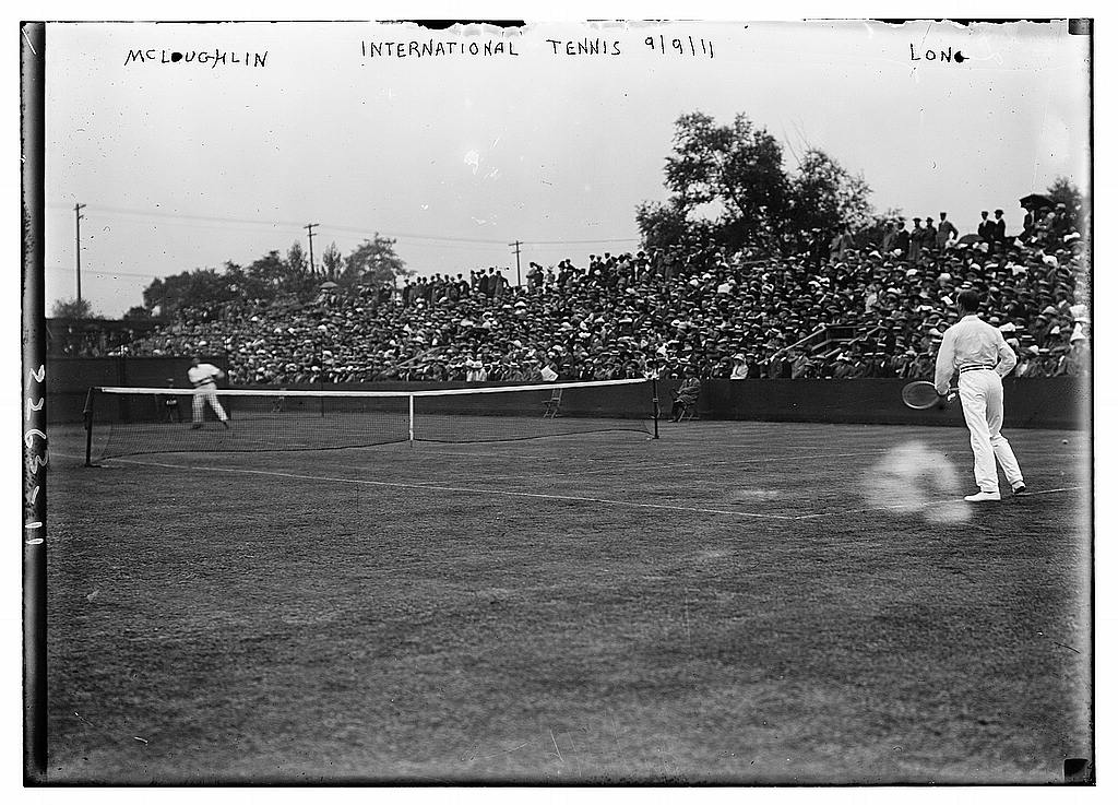 Bain News Service, publisher. Intern'l Tennis - Maurice Evans McLoughlin and Melville Long on September 9, 1911 [between 1910 and 1915] 1 negative : glass ; 5 x 7 in. or smaller. Notes: Title from unverified data provided by the Bain News Service on the negatives or caption cards. Forms part of: George Grantham Bain Collection (Library of Congress). Format: Glass negatives. Repository: Library of Congress Prints and Photographs Division Washington, D.C. 20540 USA General information about the Bain Collection is available at Persistent URL: Call Number: LC-B2- 2263-11